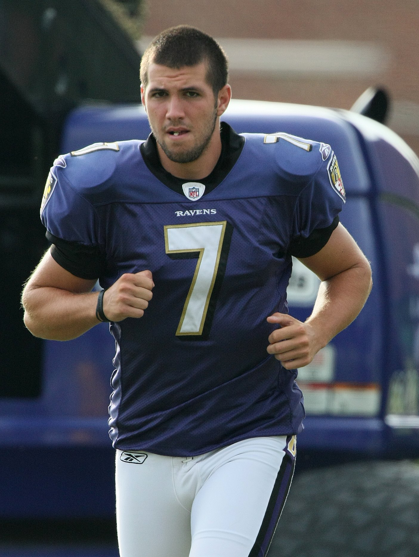 Graham Gano at Baltimore Ravens training camp on August 21, 2009